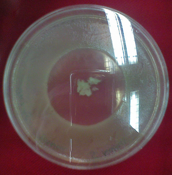 Inhibition of the growth Staphylococcus aureus through garlic (Allium sativum).